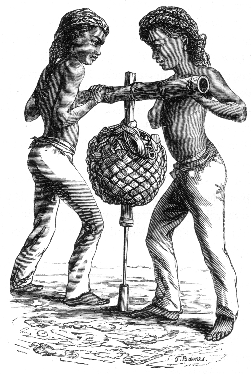 Caption reads: "Gun-boring in Lombock" (from a sketch by the author).